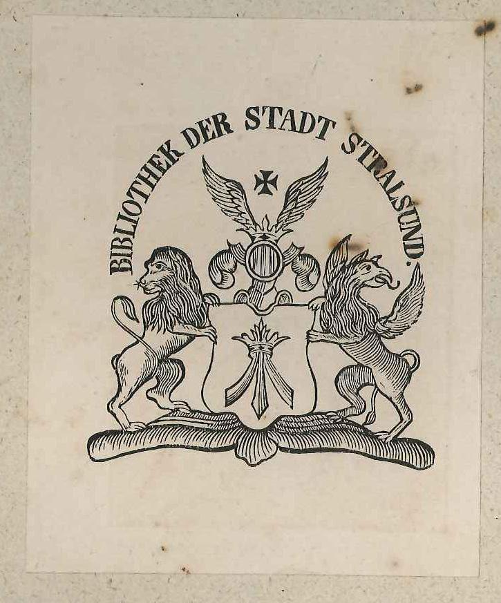 Ex Libris of the City Library of Stralsund, c. 19th century, scanned from a collection of essays in honor of Friedrich Koch (Schulrat) collected by Ernst Heinrich Zober, sold in 2012 by Stadtarchiv Stralsund